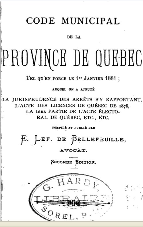 Title page of the book